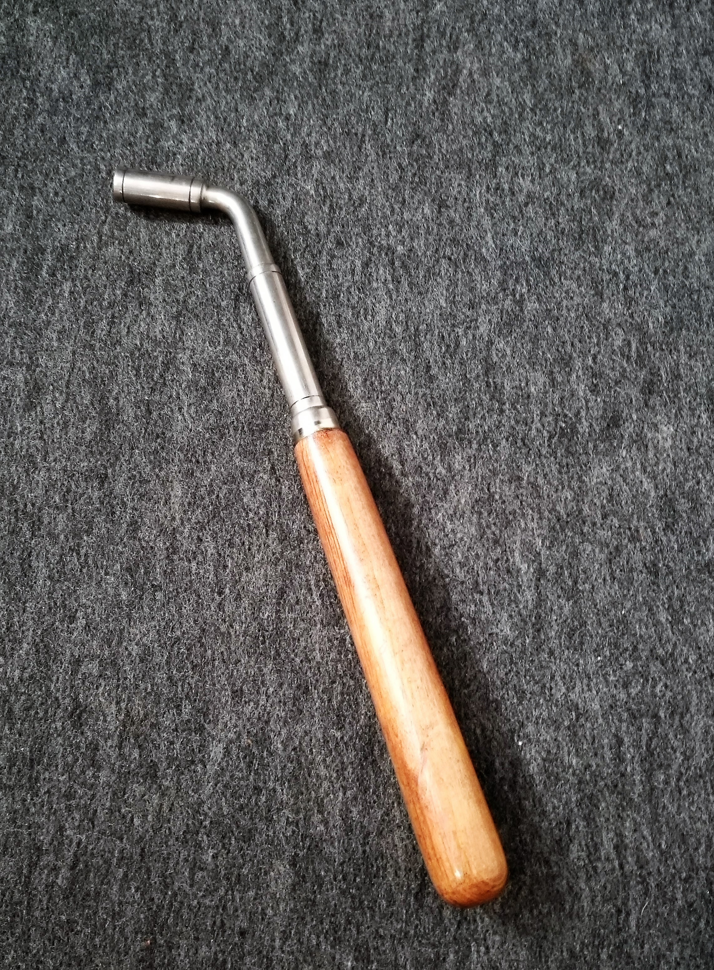 Tuning mechanisms Grand Piano and Piano